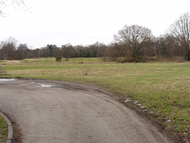 Royal Mid-Surrey golf course, Old Deer Park, Richmond. View south from Kew Gardens near the pagoda.